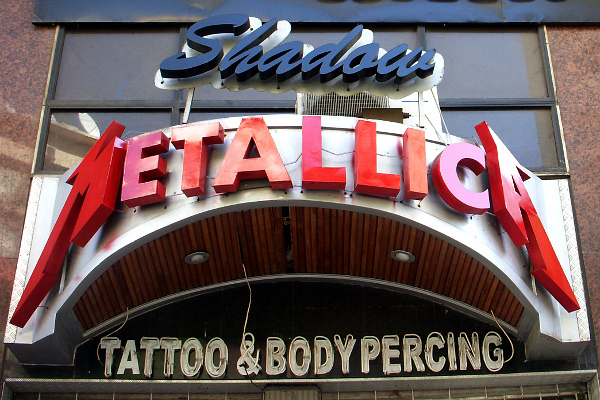 (@ Beirut, Lebanon) I guess it was about time ... But, still, hairdressers (the tattoo/percing part was just a window thing)! I guess there are worse jobs ... And with this insanity starts the flooding of digicrap from the (short) trip to the Middle East. Yallah!